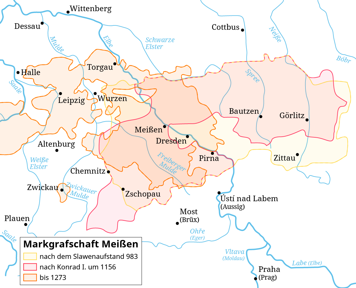 Map of the Margraviate of Meissen 983, 1156, and 1273